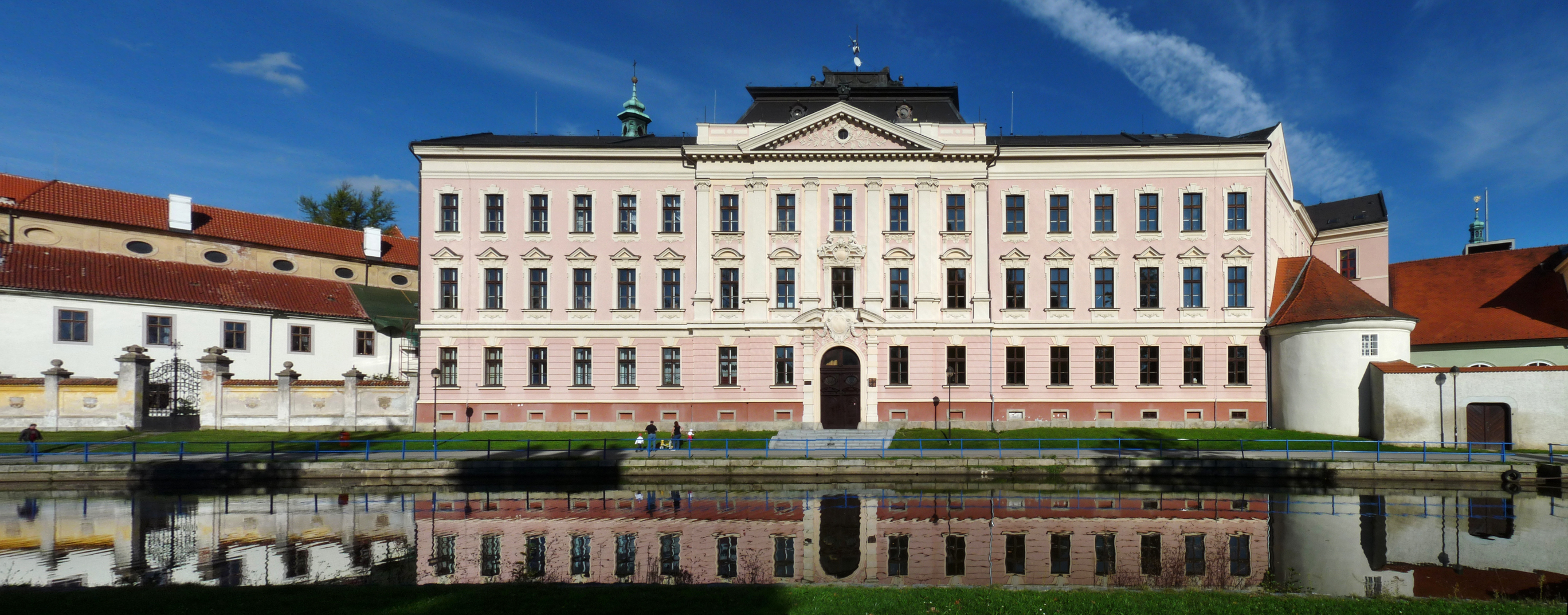 Grammar school Česká in Zátkovo nábřeží Street, České Budějovice, Czech Republic.